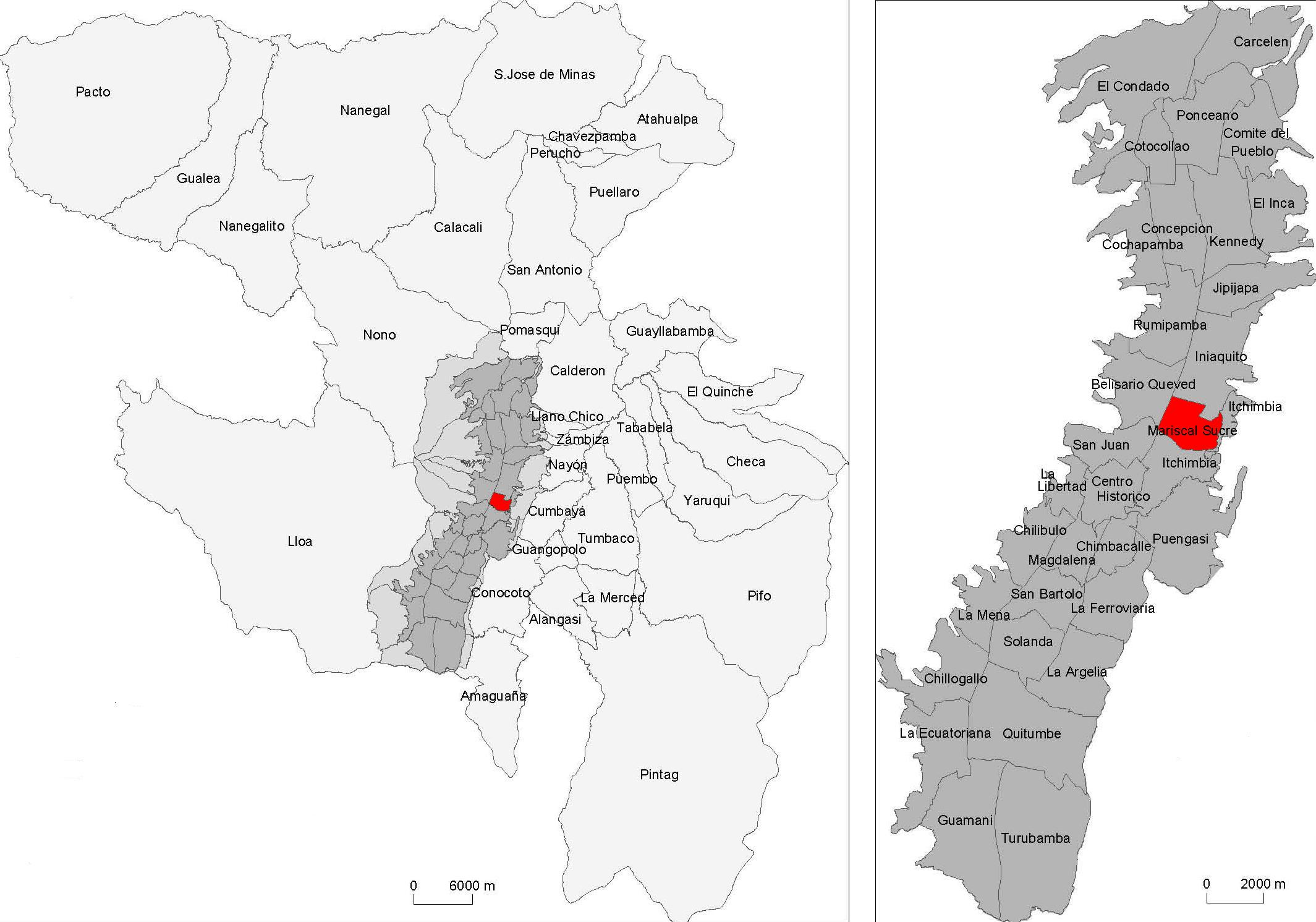 Map of parishes of Quito (2009)